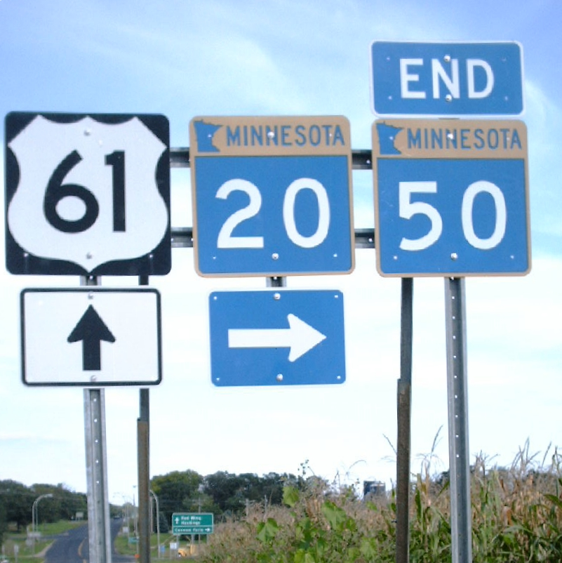 Photo I took in September 2006 of signs west of Miesville, Minnesota at the intersection of Minnesota State Highways 20 and 50 and U.S. 61.